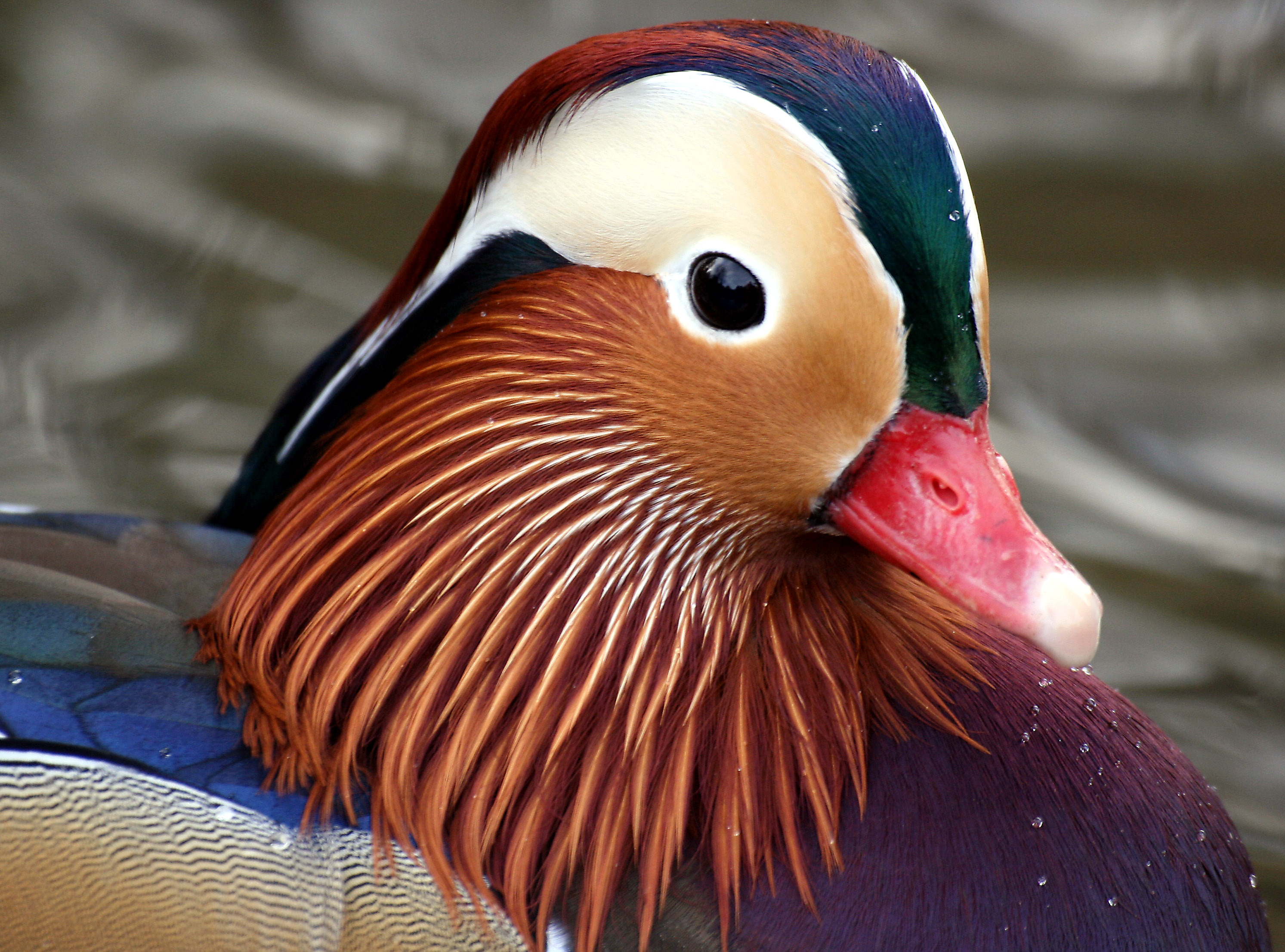 Highest Explore Position ~ #242 on November 11th 2007. Mandarin Duck - Richmond Park - London, England - Sunday November 4th 2007.